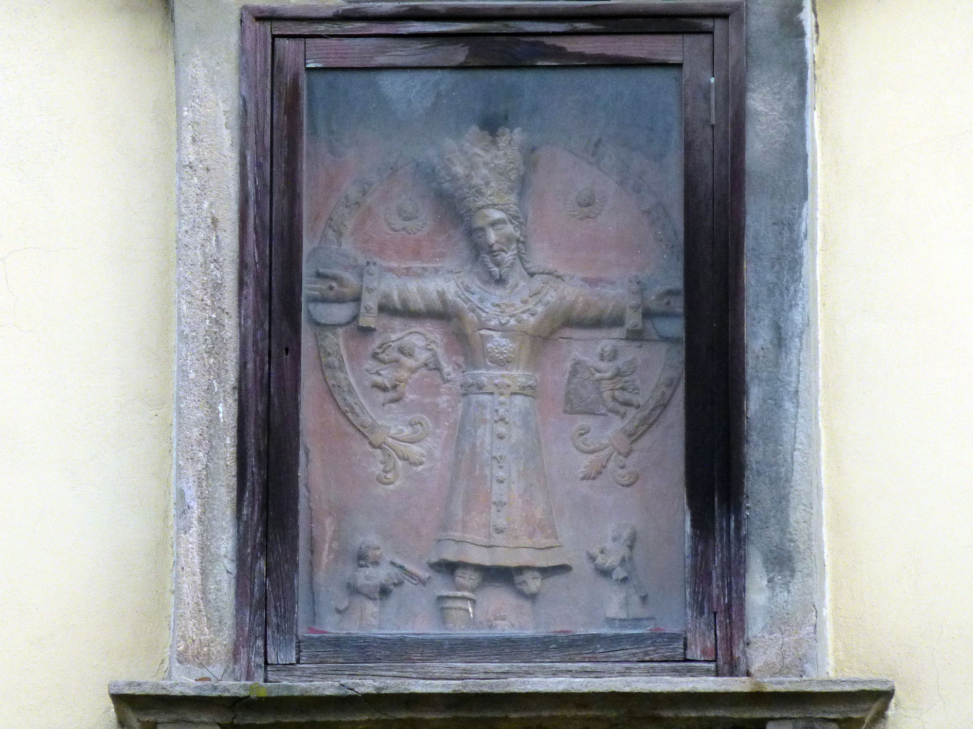 Terracotta with the representation of the "Santo Volto", inserted in a modest aedicula on the outer wall of Via del Fosso 191 in Lucca. At the bottom left there is a small figure with a trumpet, a likely representation of the protagonist of the "miracle of calzàre [sandal]".